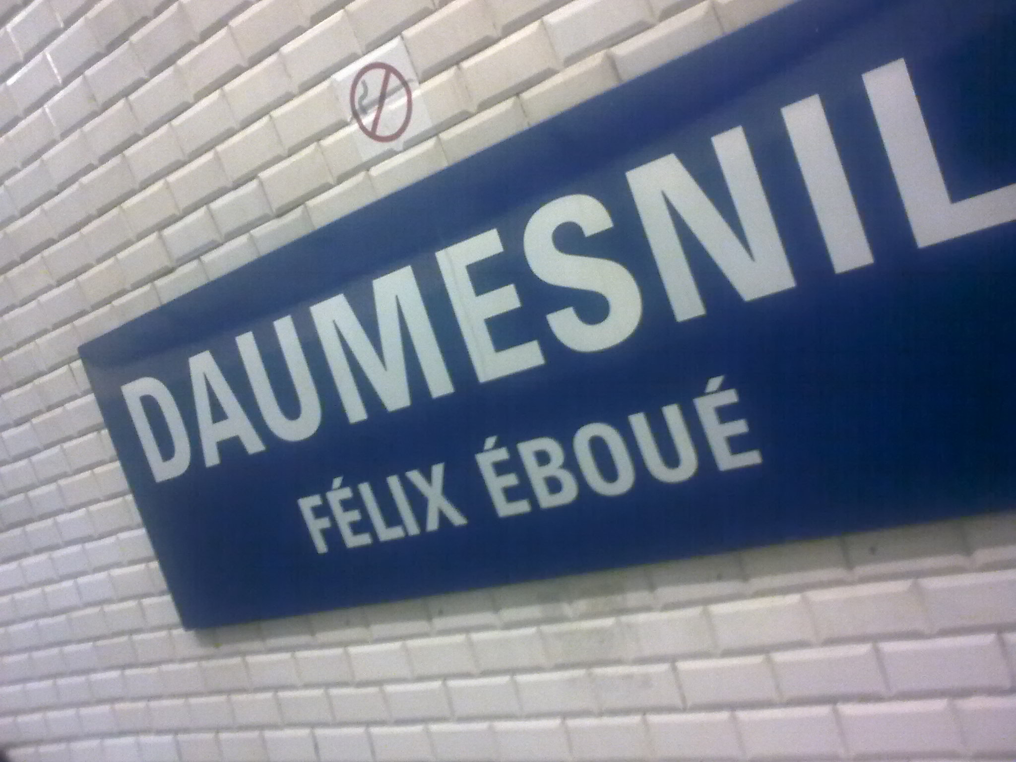 Sign for Daumesnil metro station as seen from line 8 platform